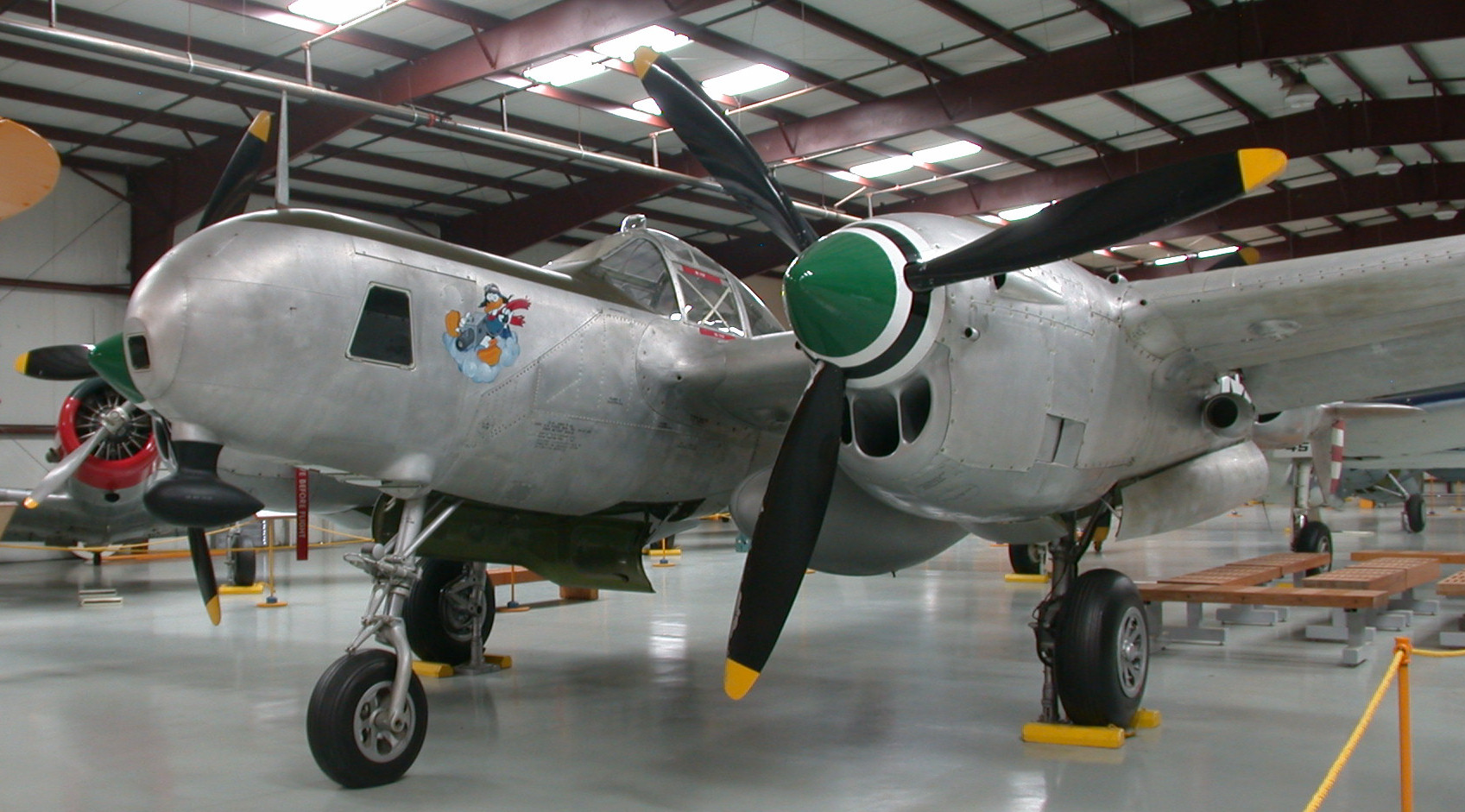 Lockheed F-5G (P-38L) Lightning, Yanks Air Museum, Chino, California